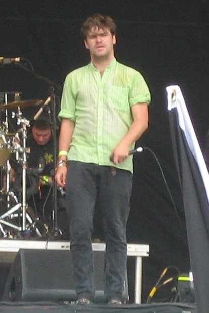 Jack Peñate, performing at Glastonbury Festival, 2008.